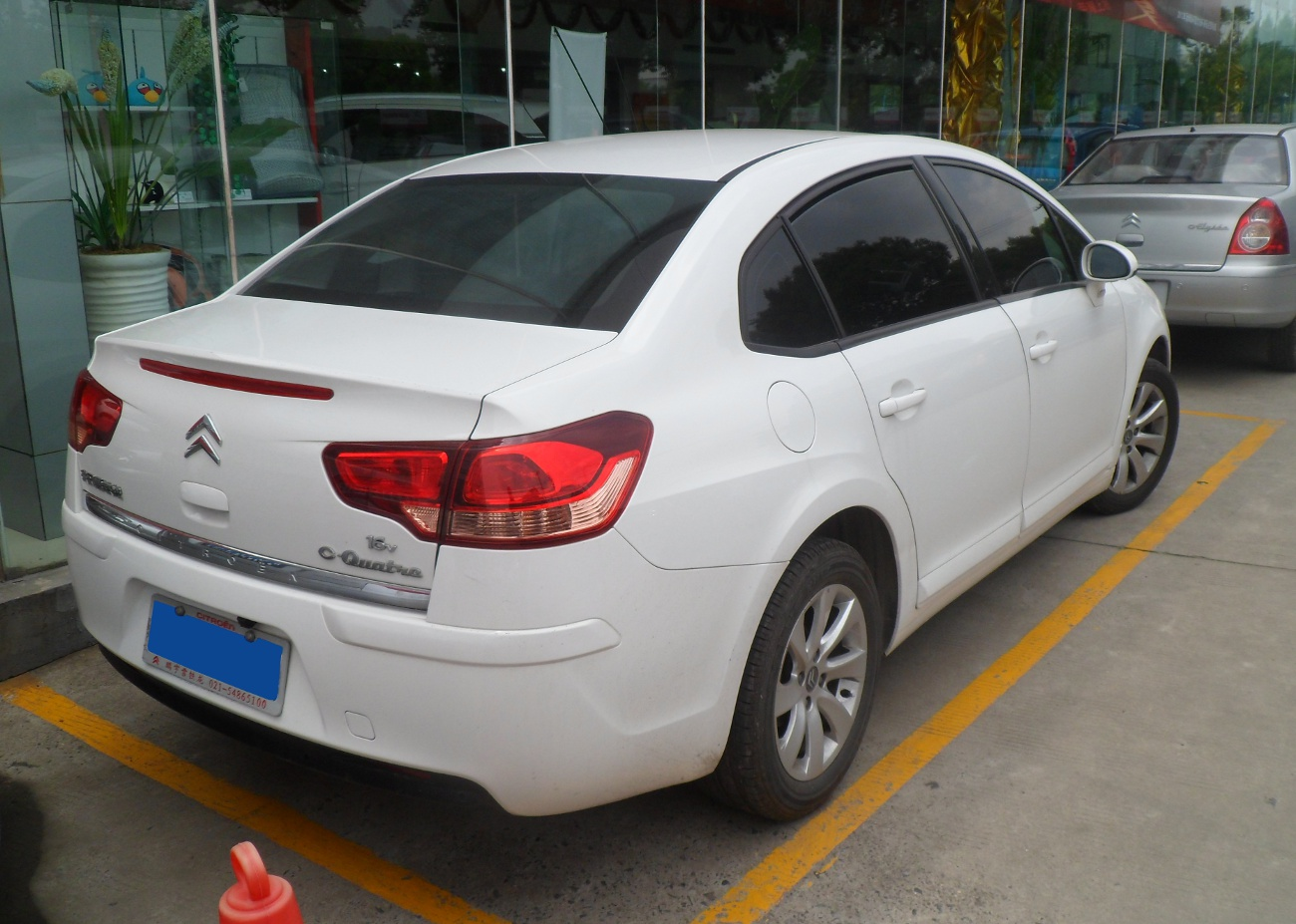 Citroën C-Quatre sedan photographed in Shanghai, China.